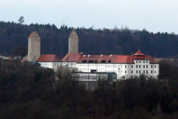 Castle Hirschberg as seen from Arzberg (Altmühltal).